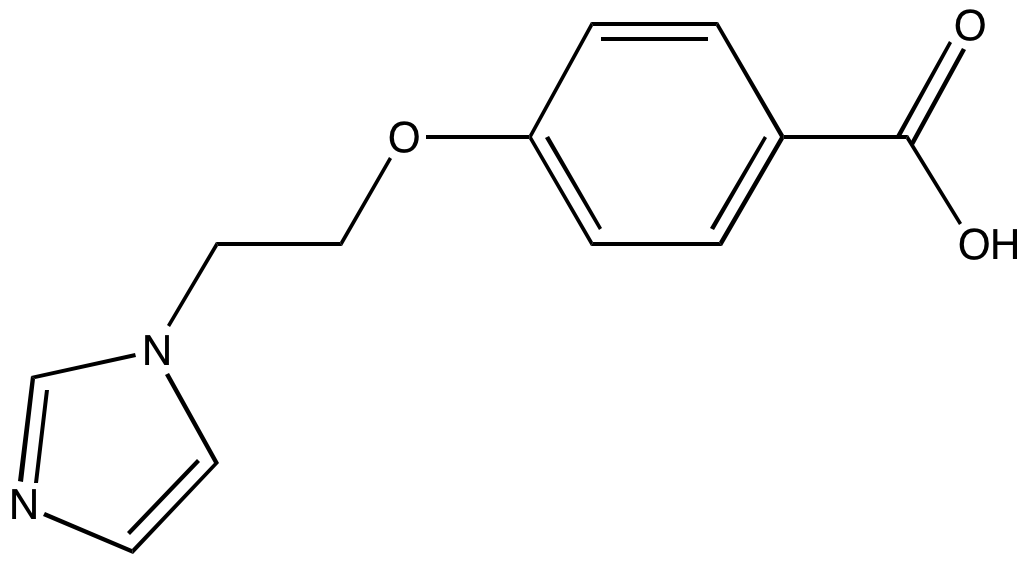 Structure of Dazoxiben